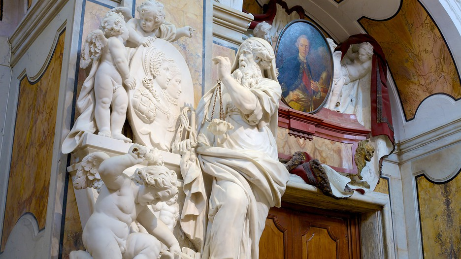 Zelo della Religione, Cappella Sansevero